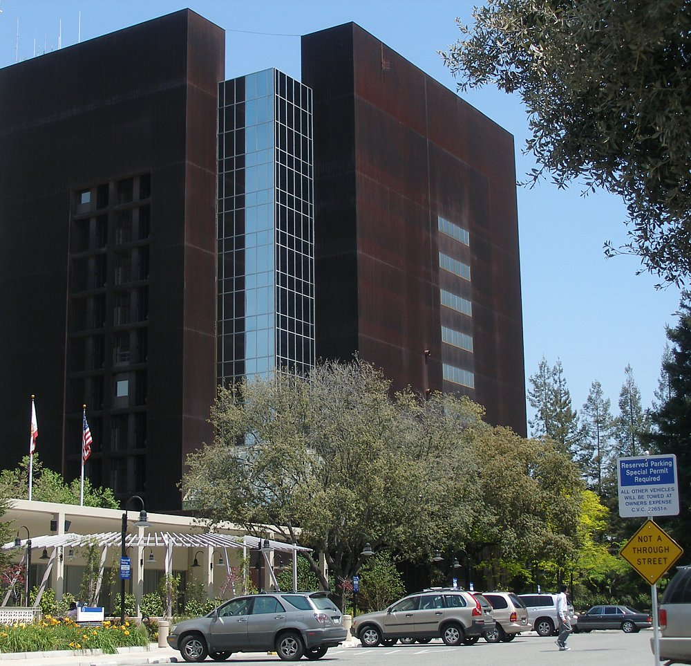 The Government Center complex in Santa Clara County, California. Photographed on May 2, en:2006 by user Coolcaesar in San Jose, California.